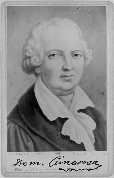 Domenico Cimarosa